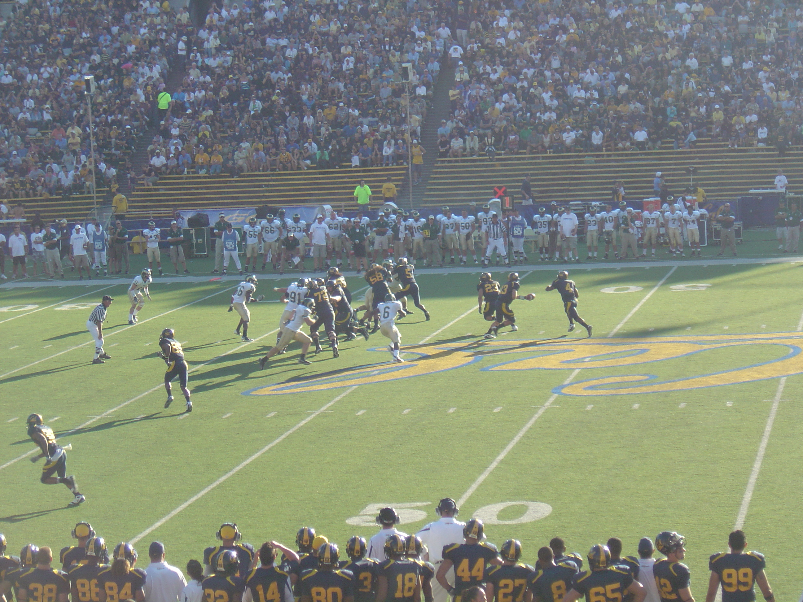 Cal's Kevin Riley hands the ball off to Jahvid Best (#4) against Colorado State.